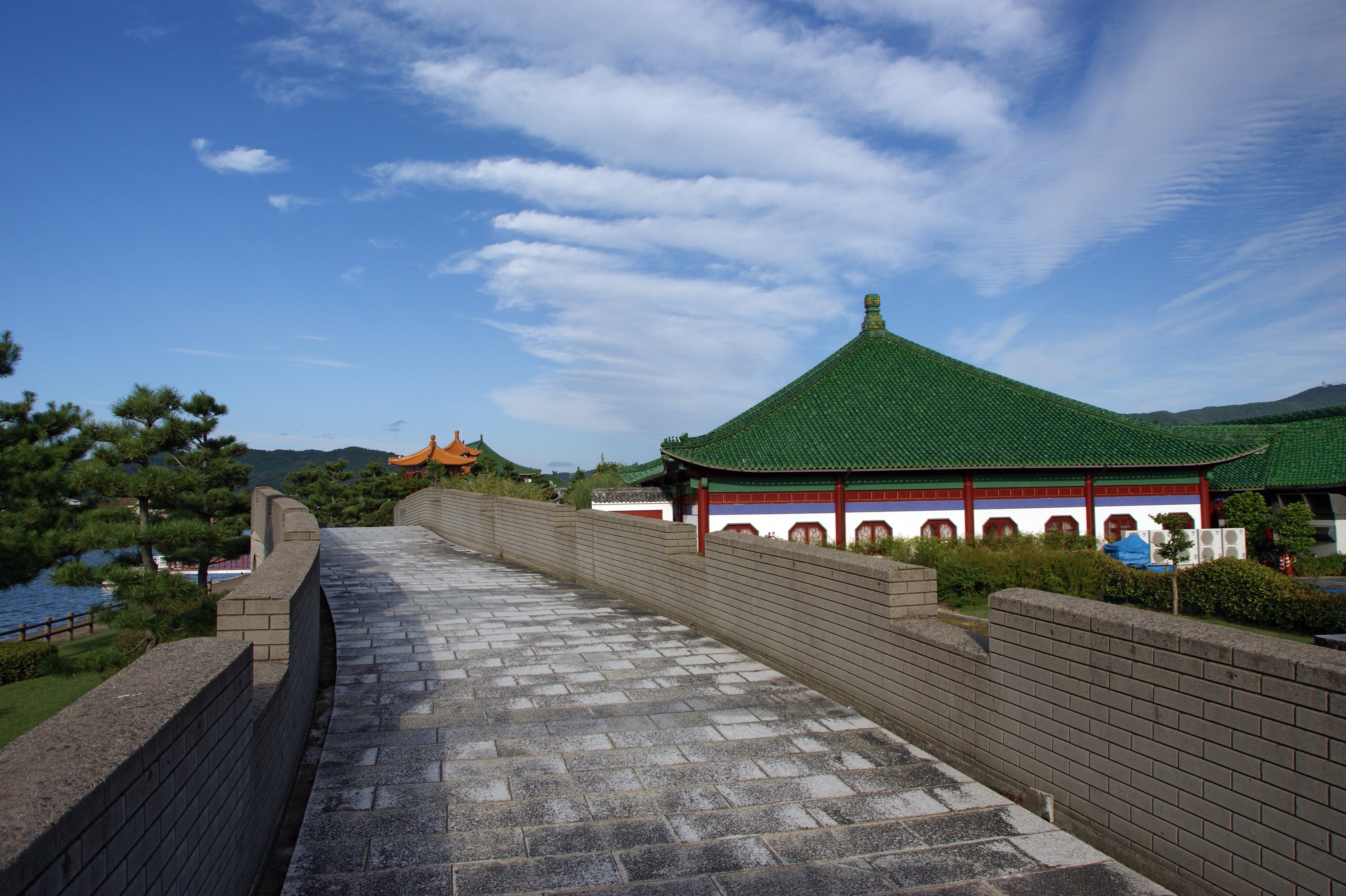 Enchoen in Yurihama, Tottori prefecture, Japan